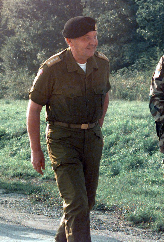 Norwegian Chief of Defense General Solli leaves the flight line on Tuzla Air Base, Bosnia and Herzegovina, upon his arrival to Task Force Eagle for a briefing at the Division and a visit to the Nordic - Polish Brigade during Operation JOINT ENDEAVOR.